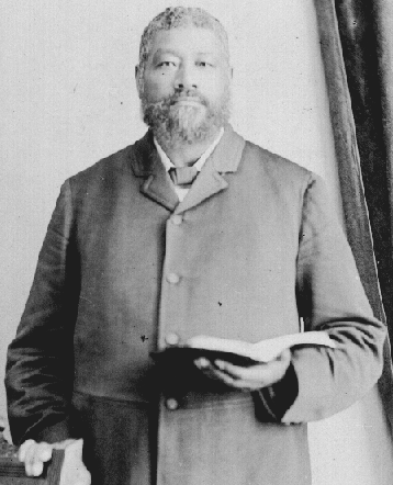 photo of William Allen standing with open Bible in his hand